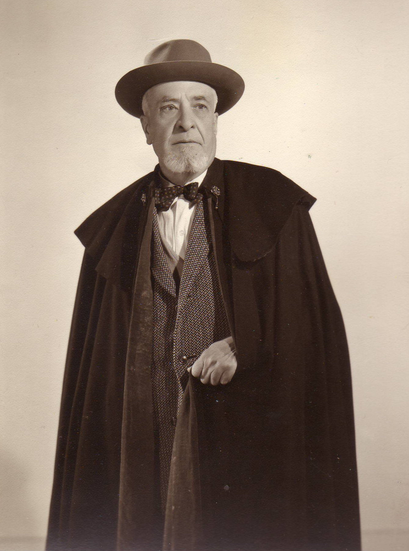 The physician José Romero Font, wearing a hat and a Spanish cape. The photograph dates from between the 1940s and 1960s, and has been donated by his family.